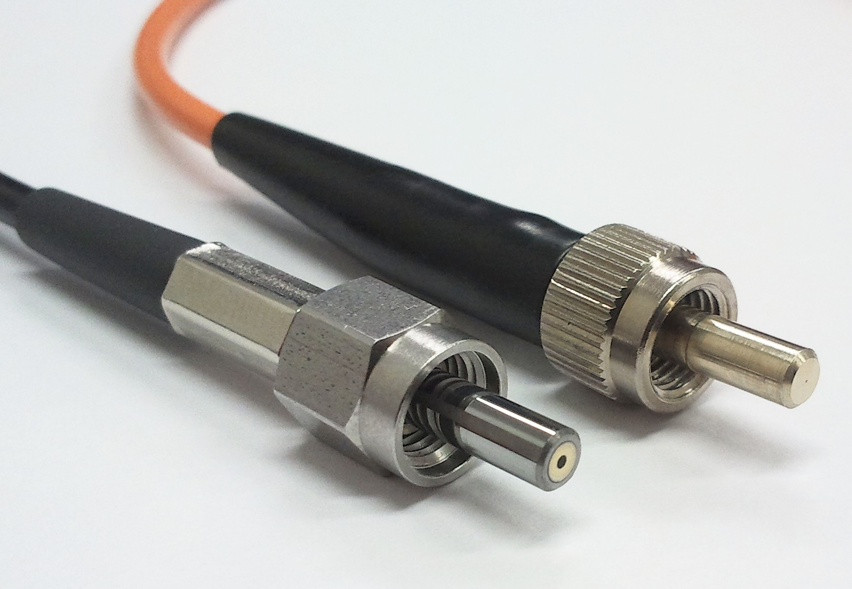 FSMA connector (SMA 905)